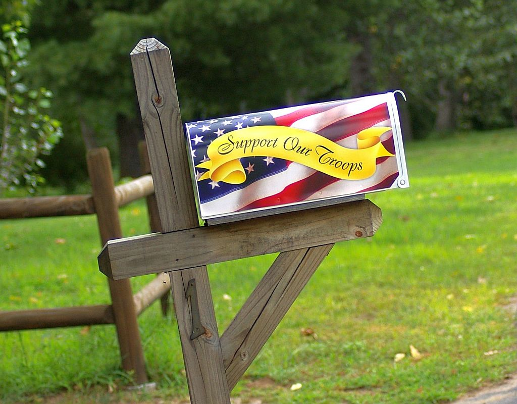 curbside mailbox with "Support our troops"